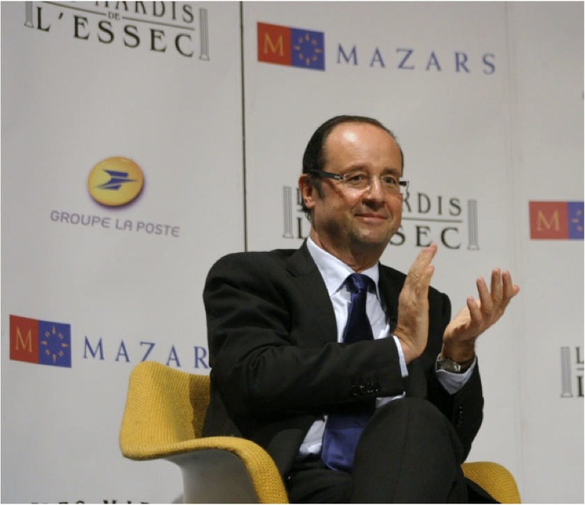 Francois Hollande - Mardis de l'ESSEC